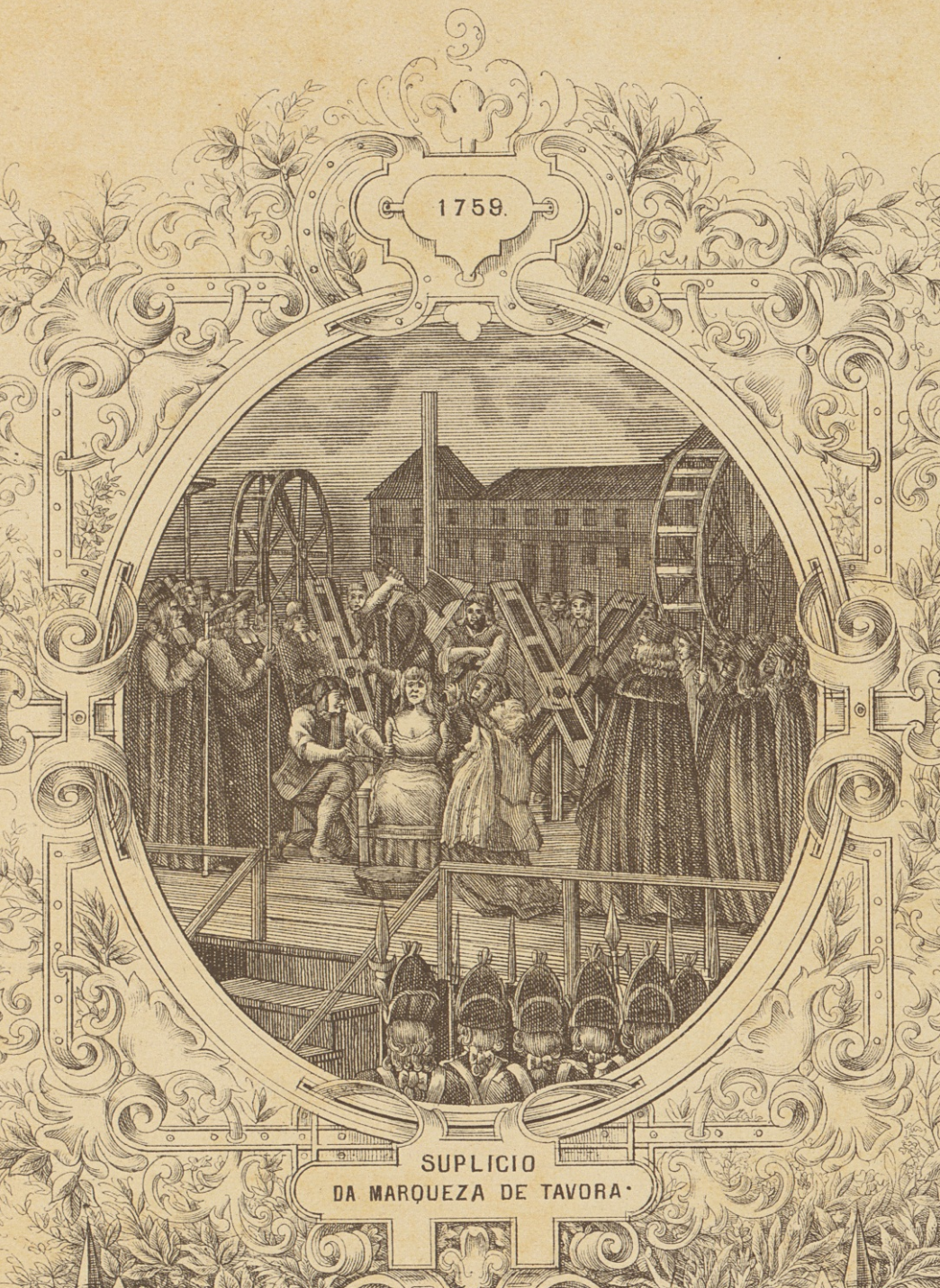 Membership diploma of the "Marquis of Pombal" mutual society (Rio de Janeiro, Brazil, 1880s). It is engraved with depictions of several episodes in the life of the Marquis de Pombal, the coats of arms of the Empire of Brazil and the Kingdom of Portugal, and a view of Lisbon.